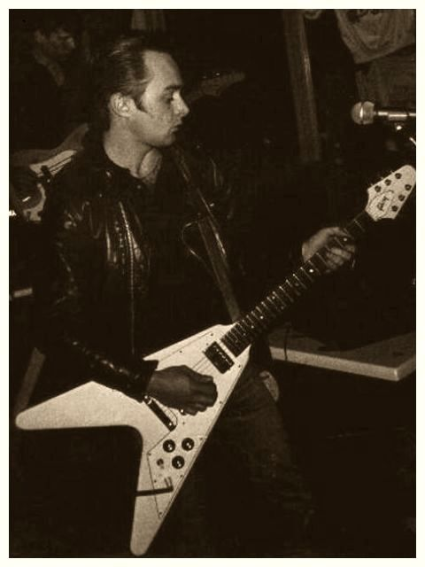 French singer and guitarist Gill Dougherty in 1986.